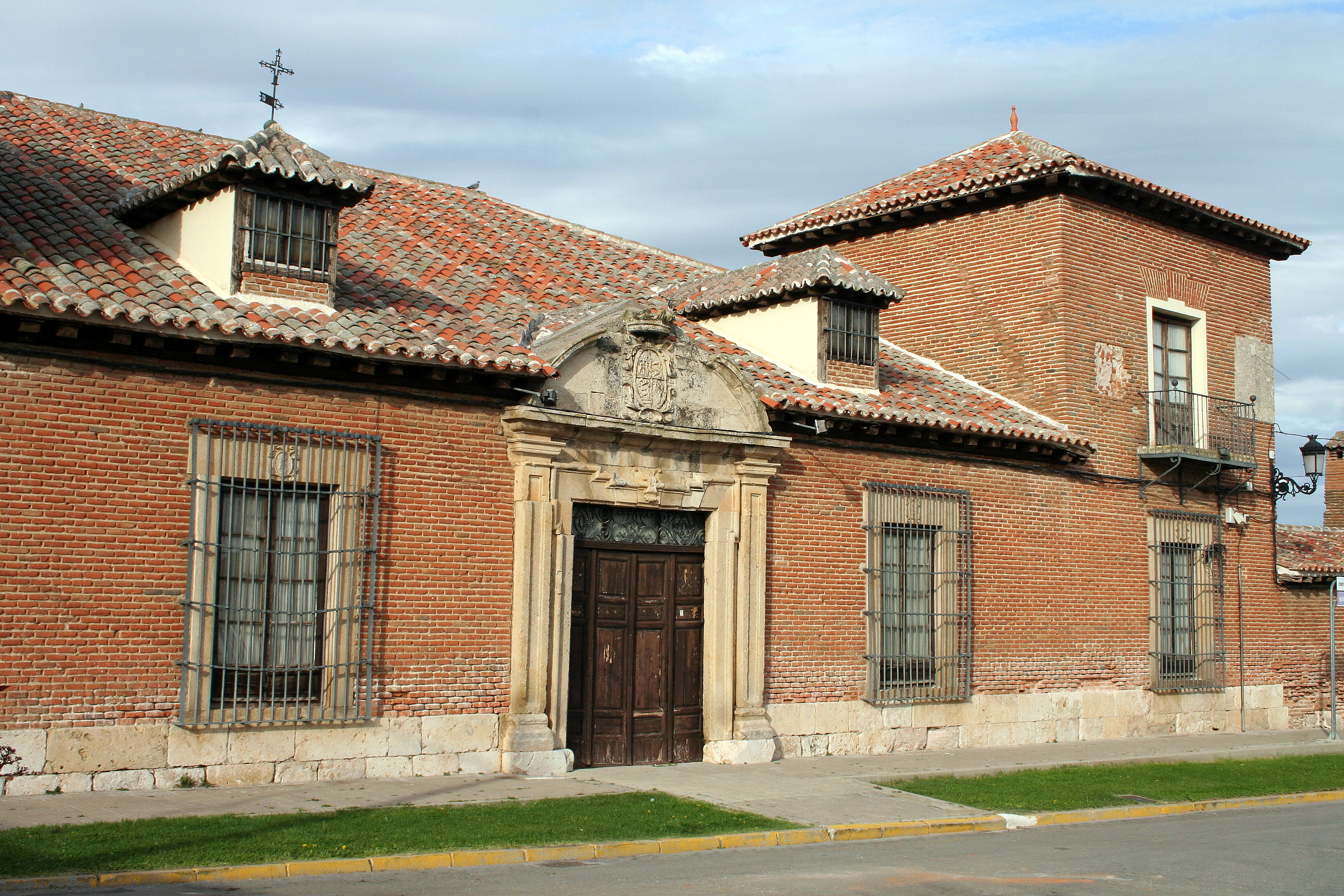 Baroque palace. Central façade with coat of arms.